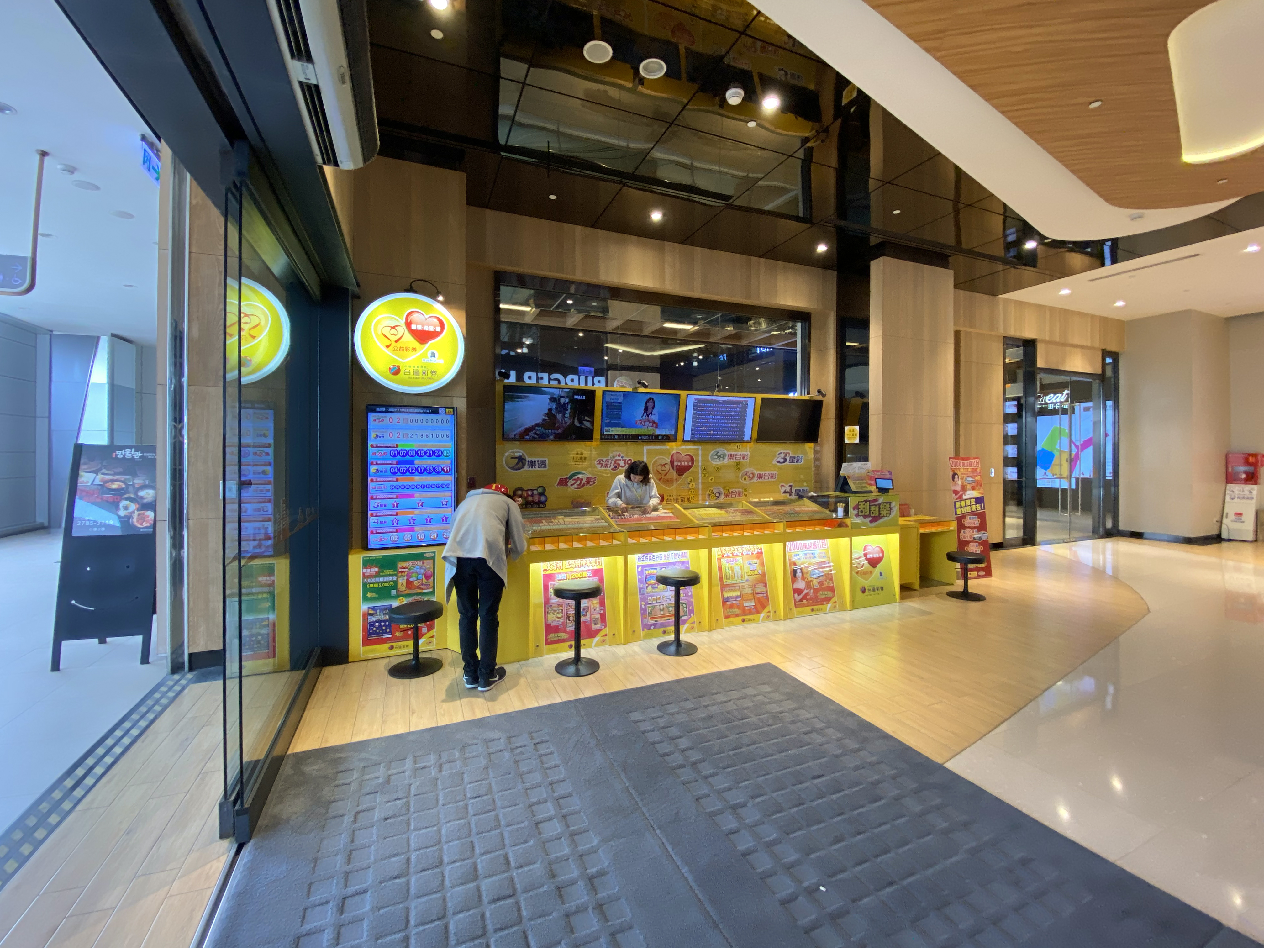 CTBC Financial Park taiwanlottery